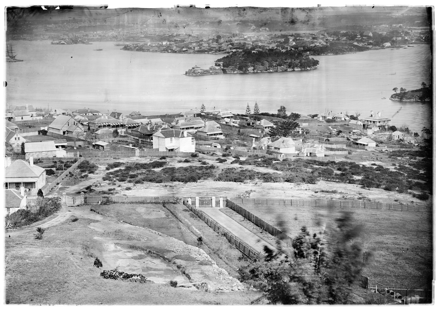 A photographic view of Sydney Harbour taken from St Leonards (North Sydney), between 1870 - 1875.